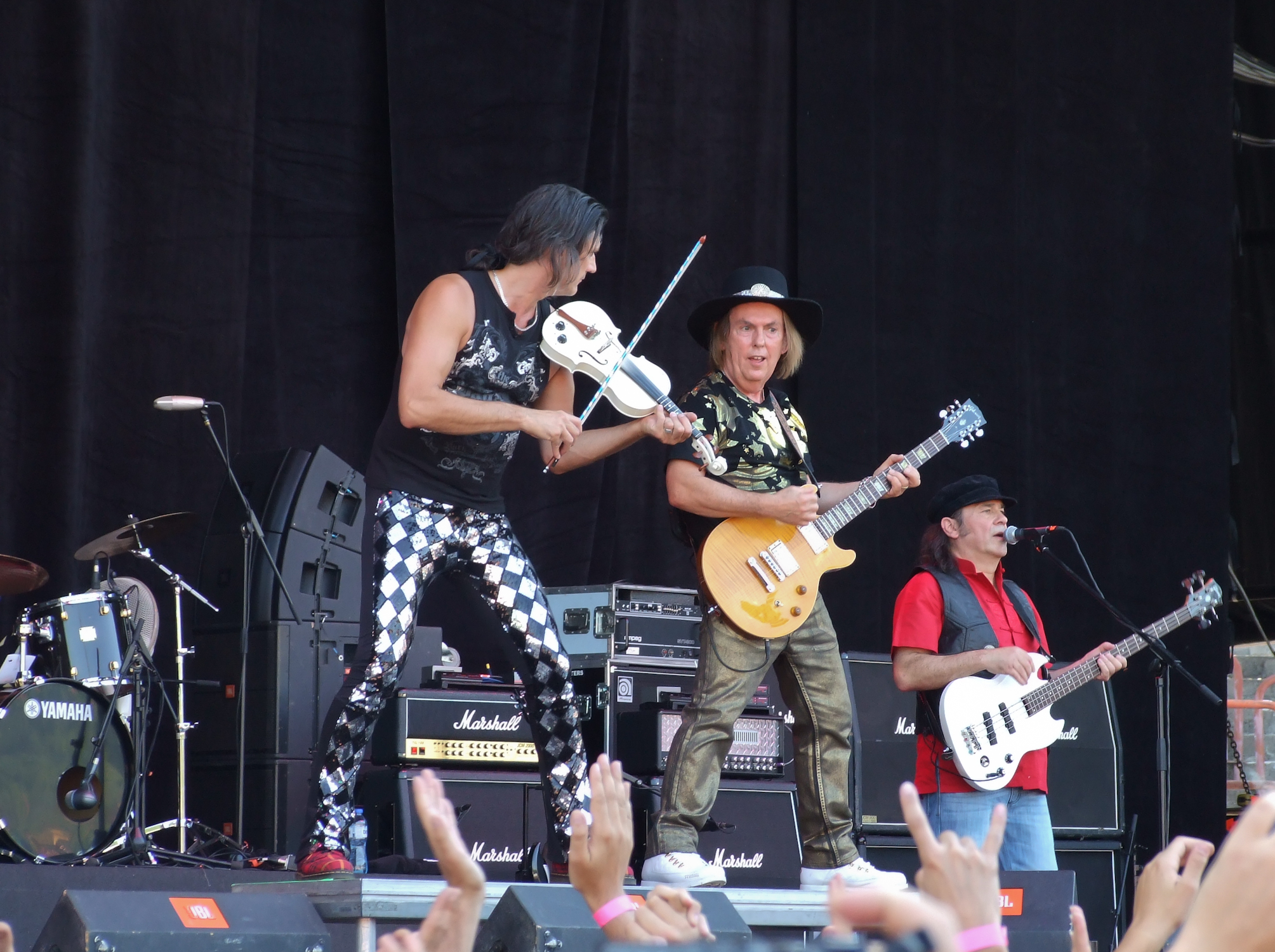 The British rock band Slade at Sofia Rocks Fest 2011, Bulgaria. From left to right: John Berry, Dave Hill and Mal McNulty.